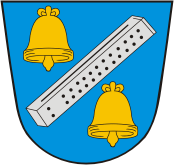 Coat of Arms of the former municipality of Anspach